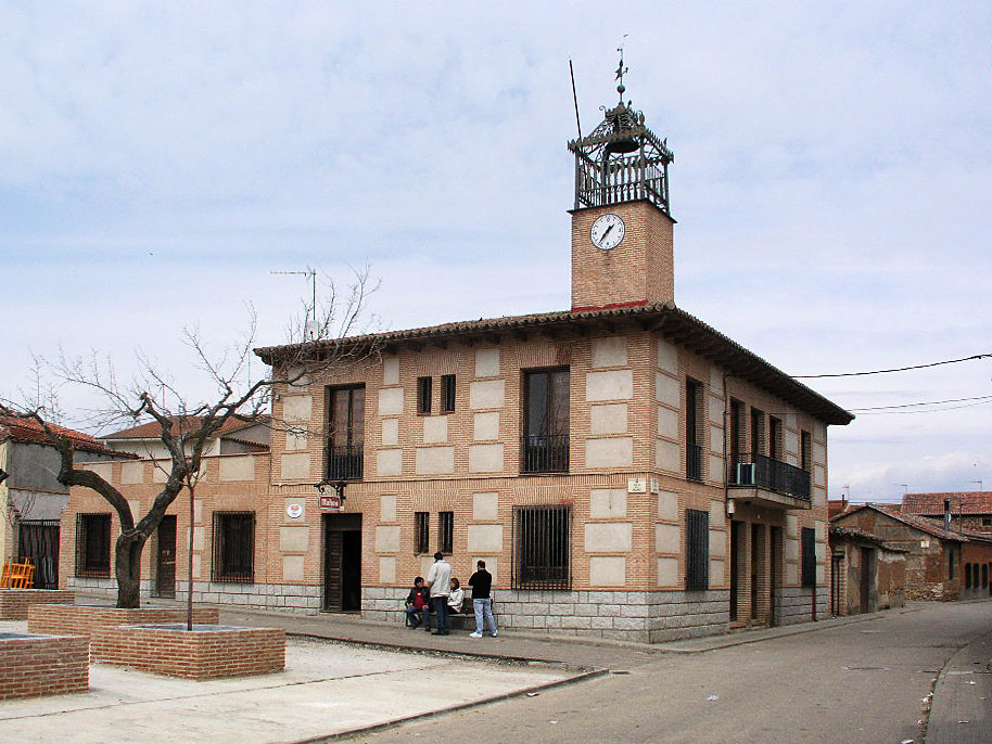 Fuentelahiguera de Albatages, Provincia de Guadalajara, Castilla-La Mancha, Spain. Ayuntamiento. The photo was taken the 7th of April 2004 by Håkan Svensson (Xauxa).